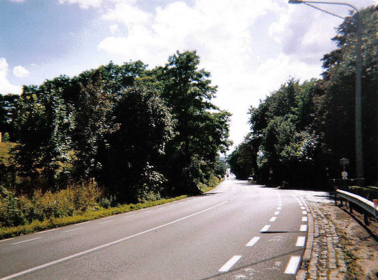 Edelareberg, a hill in Edelare, a submunicipality of Oudenaarde, Belgium, which is climbed in cyclism contests.